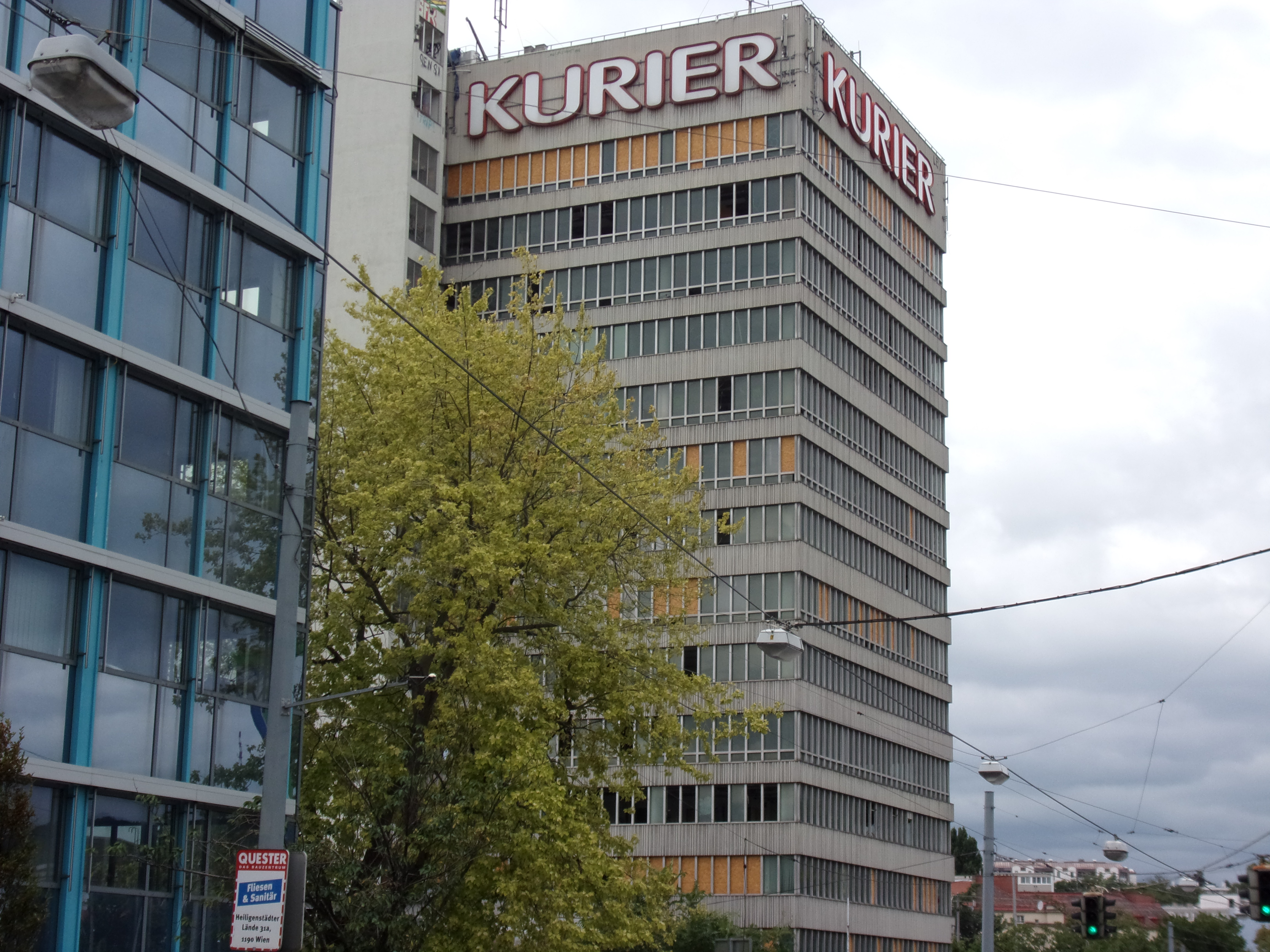 Former Austria Press Agency building (till 2005) in Gunoldstraße 14, Döbling, Vienna. With advertisement for the newspaper Kurier.